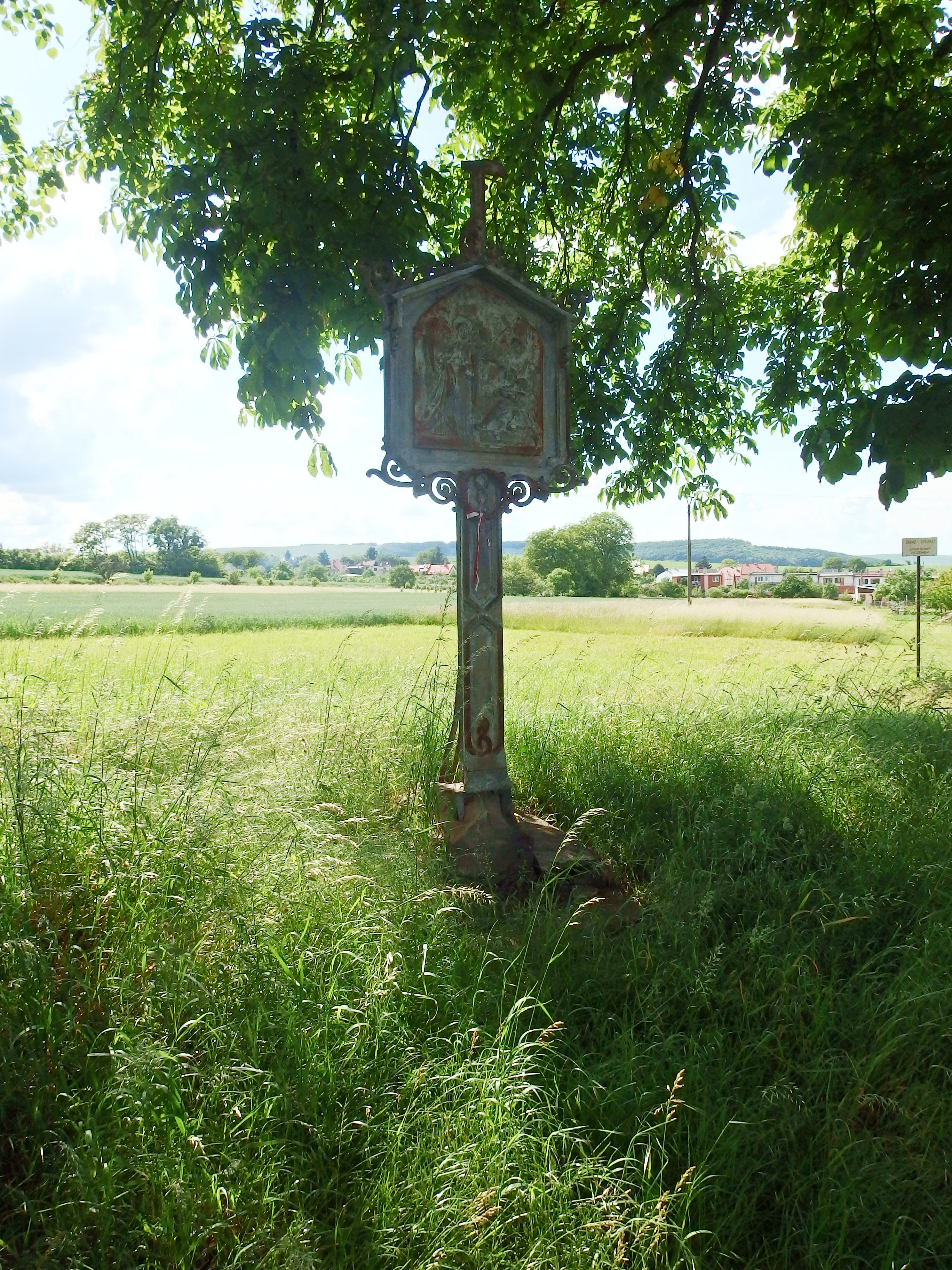 Kvasice, Kroměříž District, Czech Republic.